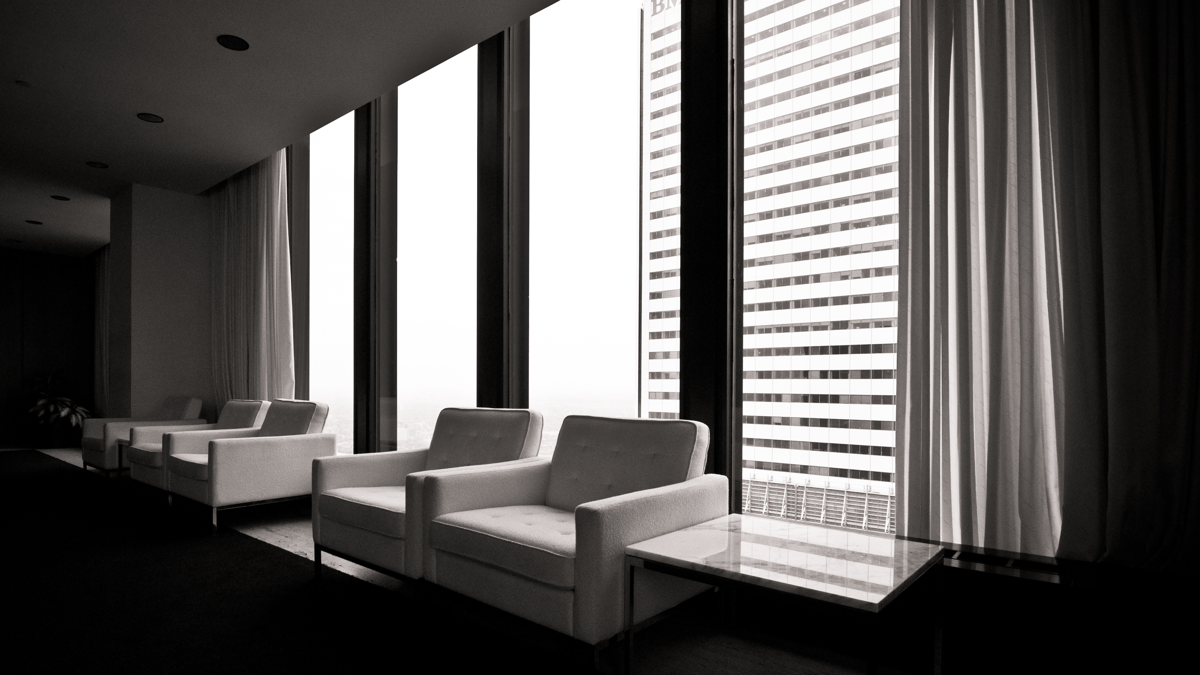 Chairs in a boardroom on the 54th floor of the TD Bank Tower, one of Canada's best preserved 1960's corporate interiors. Toronto-Dominion Centre, Toronto, Ontario, Canada.